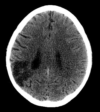 PACI- partial anterior circulation cerebral infarct